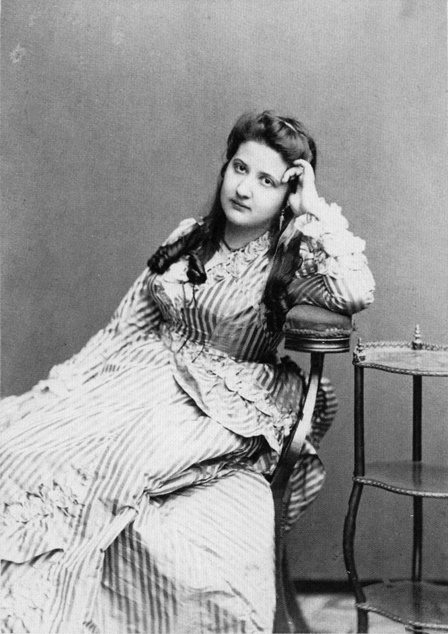 Anna von Todesco (later: Anna von Lieben, 1847–1900) in a day dress. Collection: Wien Museum, Accession number 249.582